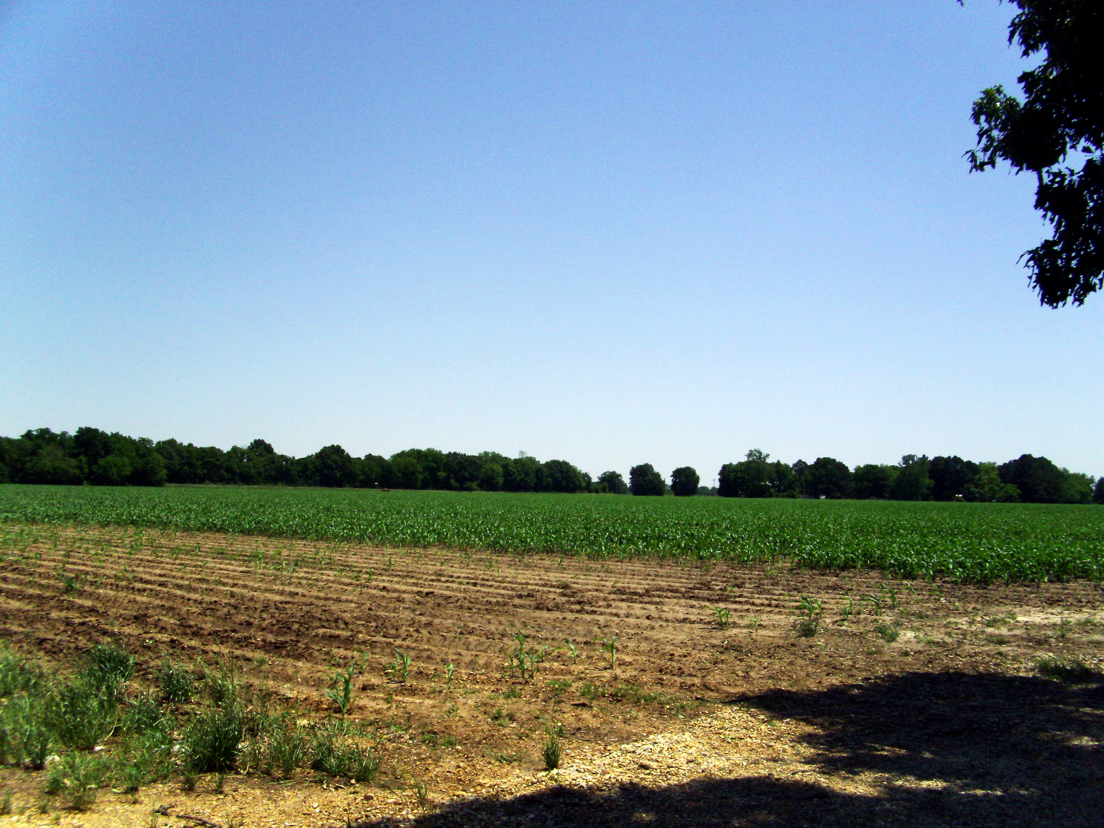 Rohwer War Relocation Center in Rowher, Desha County, AR